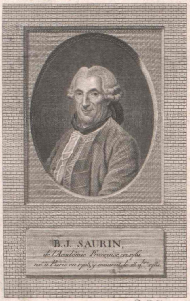 Bernard-Joseph Saurin (1706–1781), French lawyer, poet, and playwright.